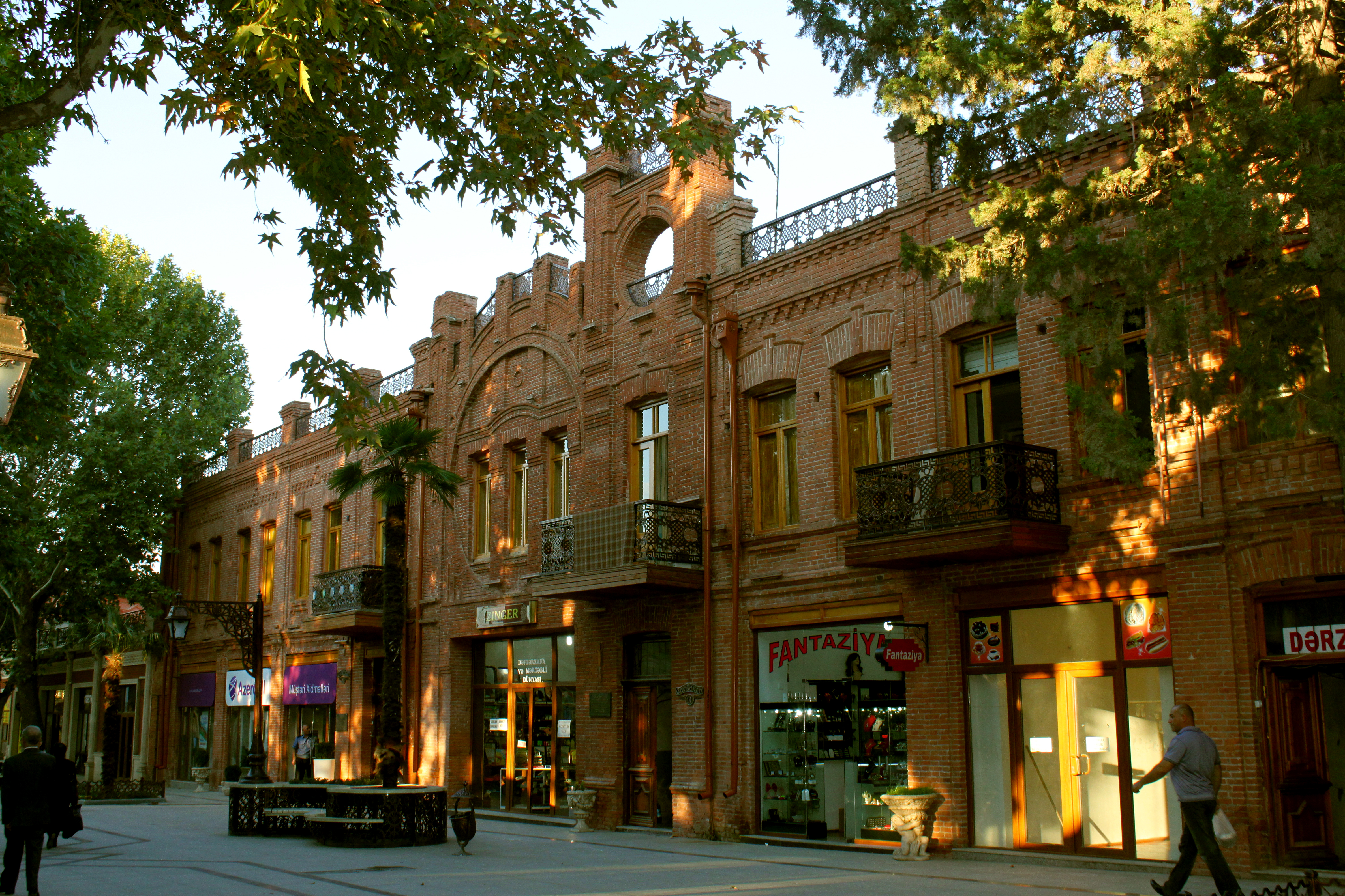 Historic house building in Ganja